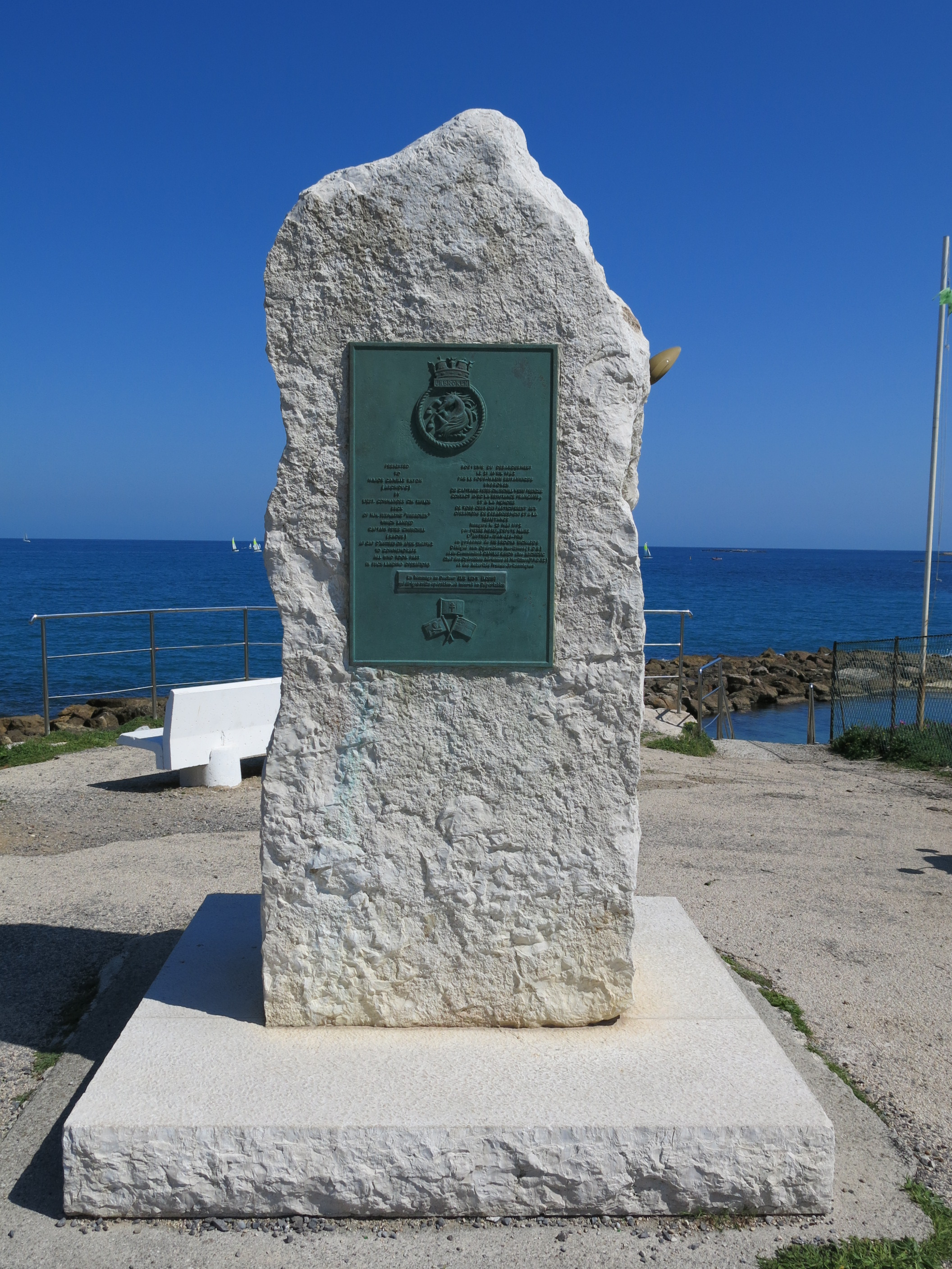 Monument in memory of the arrival of the English officer Peter Churchil from the submarine HMS Unbroken to contact the French Resistance. Antibes (Alpes-Maritimes, France).